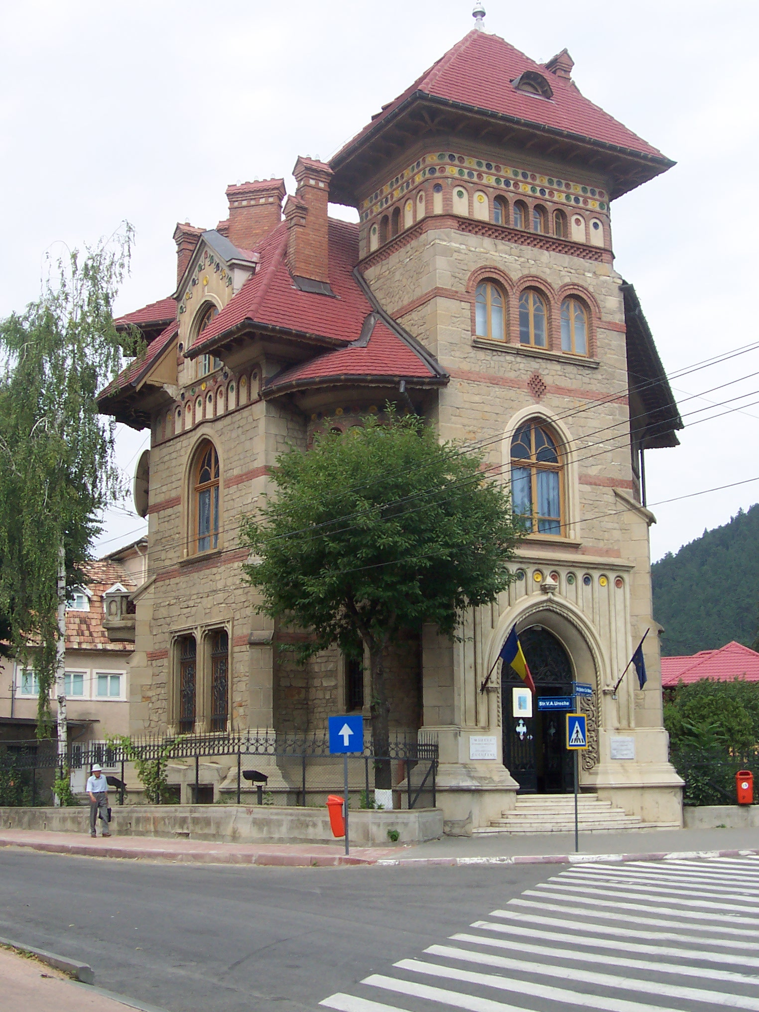 Cucuteni Museum in Piatra Neamt, Romania